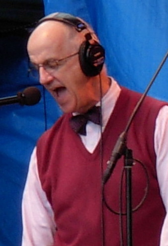 A Prairie Home Companion live show in Lanesboro, Minnesota.